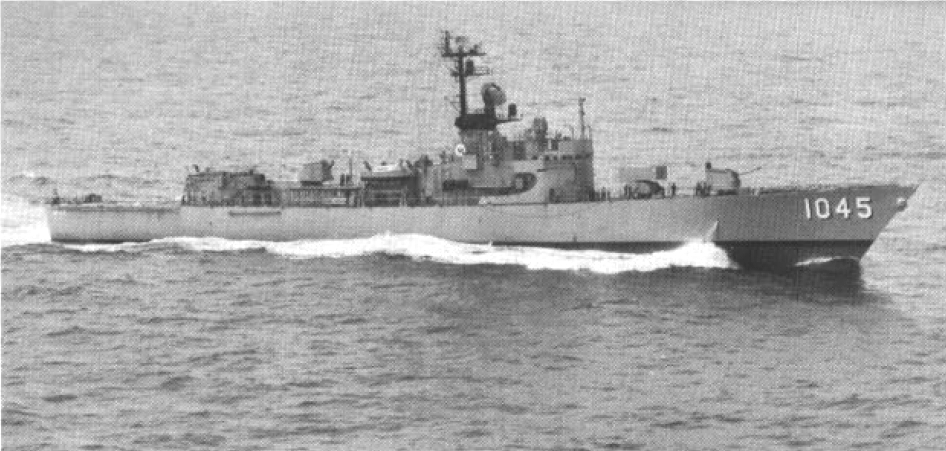 The U.S. Navy destroyer escort USS Davidson (DE-1045), circa 1967.